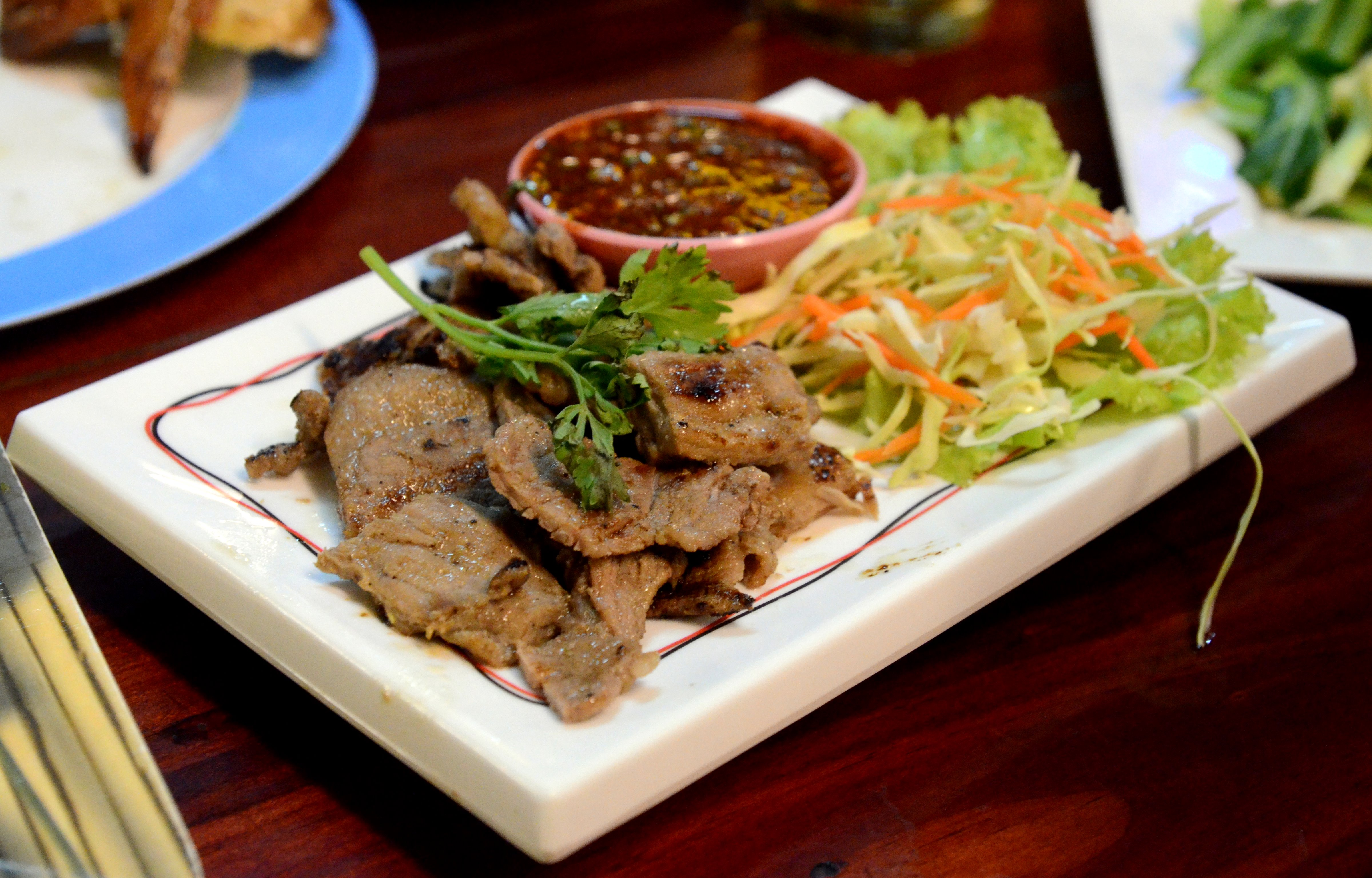 Suea rong hai (Thai script: เสือร้องไห้) literally means "weeping tiger". It is grilled marinated beef which is eaten with vegetables and Nam chim chaeo dipping sauce.